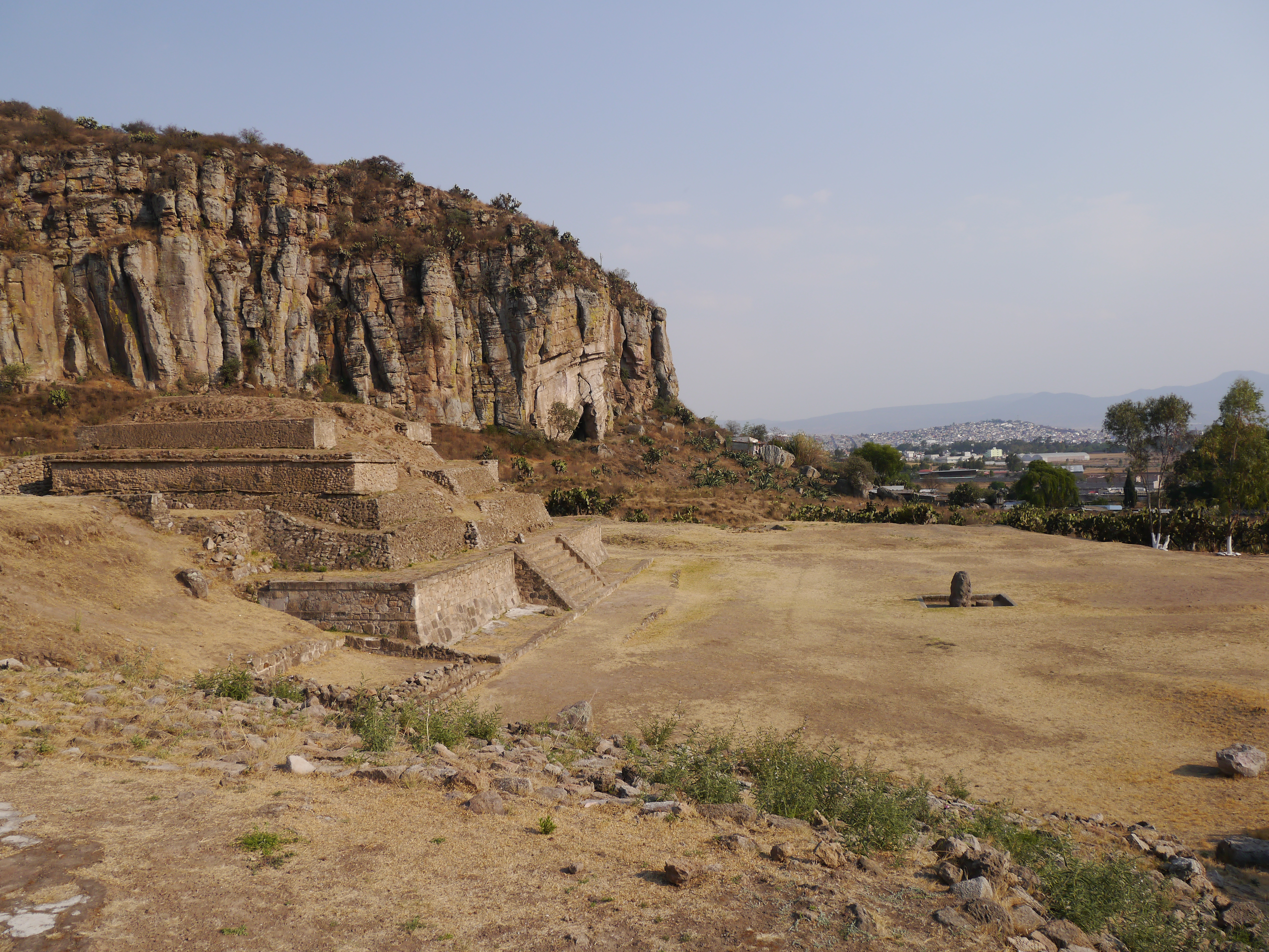 Huapalcalco (Pyramid) Archaeological Site / Zona Arqueologica. The site was established during the Toltec period of meso-America (100-650 CE). Archaeologists say it was influenced by, but not designed by the contemporary builders of Teotihuacan Valley of the Sun pyramids - fifty miles away.